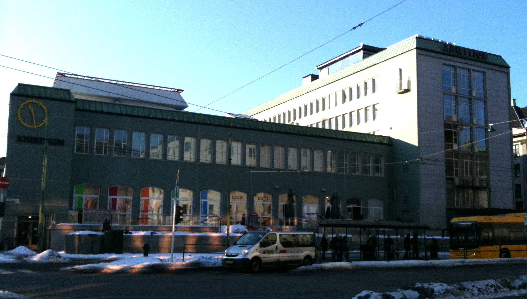 Xhibition shopping centre in Bergen, Norway